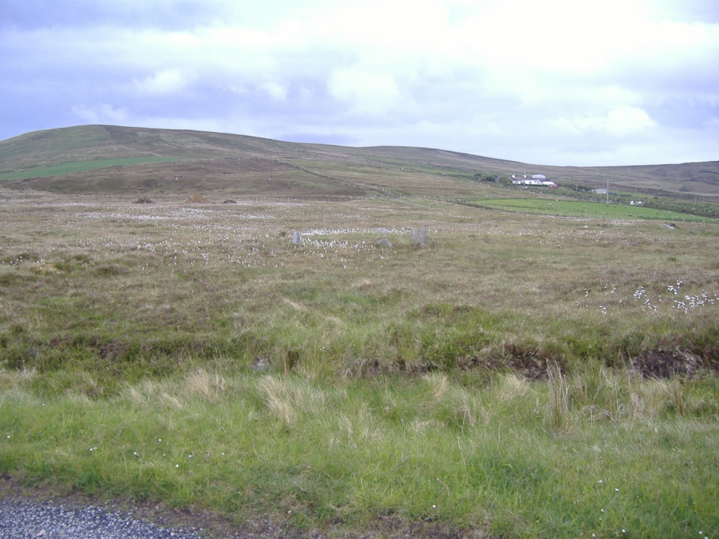 Gortbrack has many megalithic tombs, some of which are recorded monuments. This curious area is beside the Inver river in a shaded glen half way up the mountain.